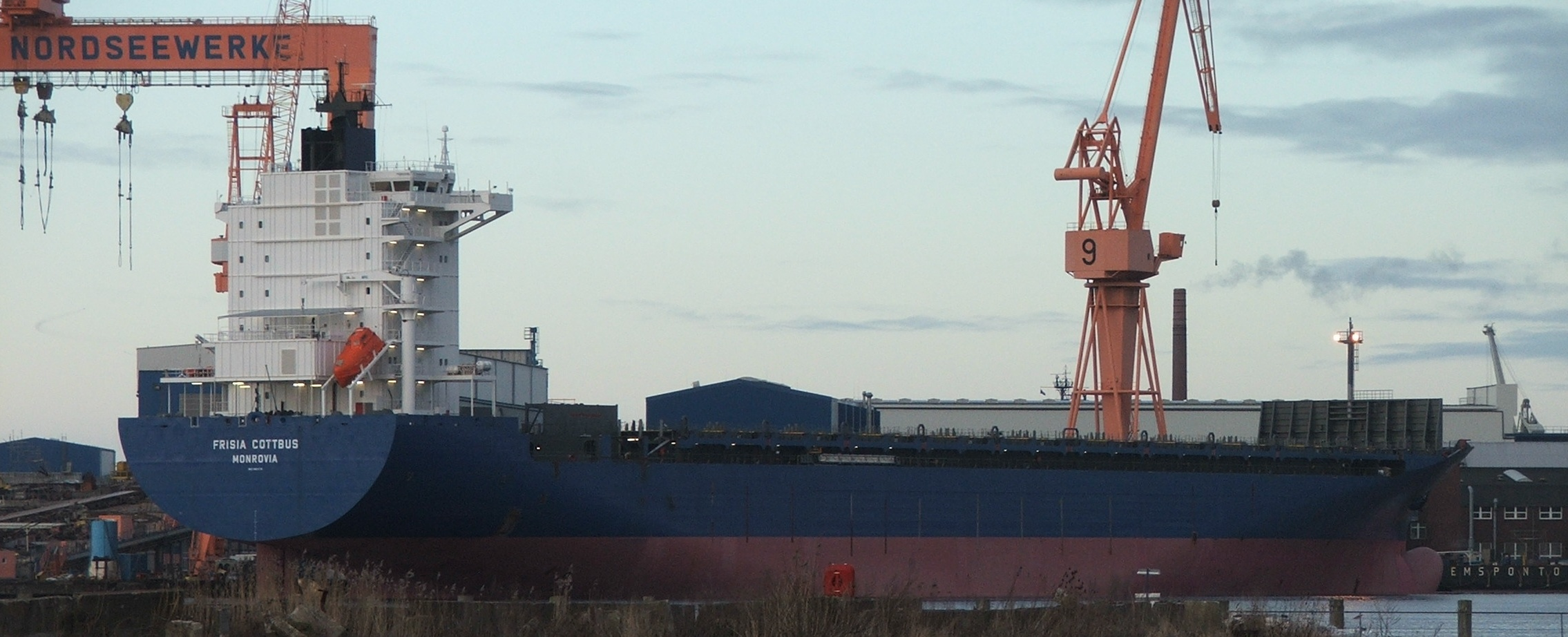 Container ship newbuilding Frisia Cottbus at her building yard Nordseewerke. IMO Number: 9401178